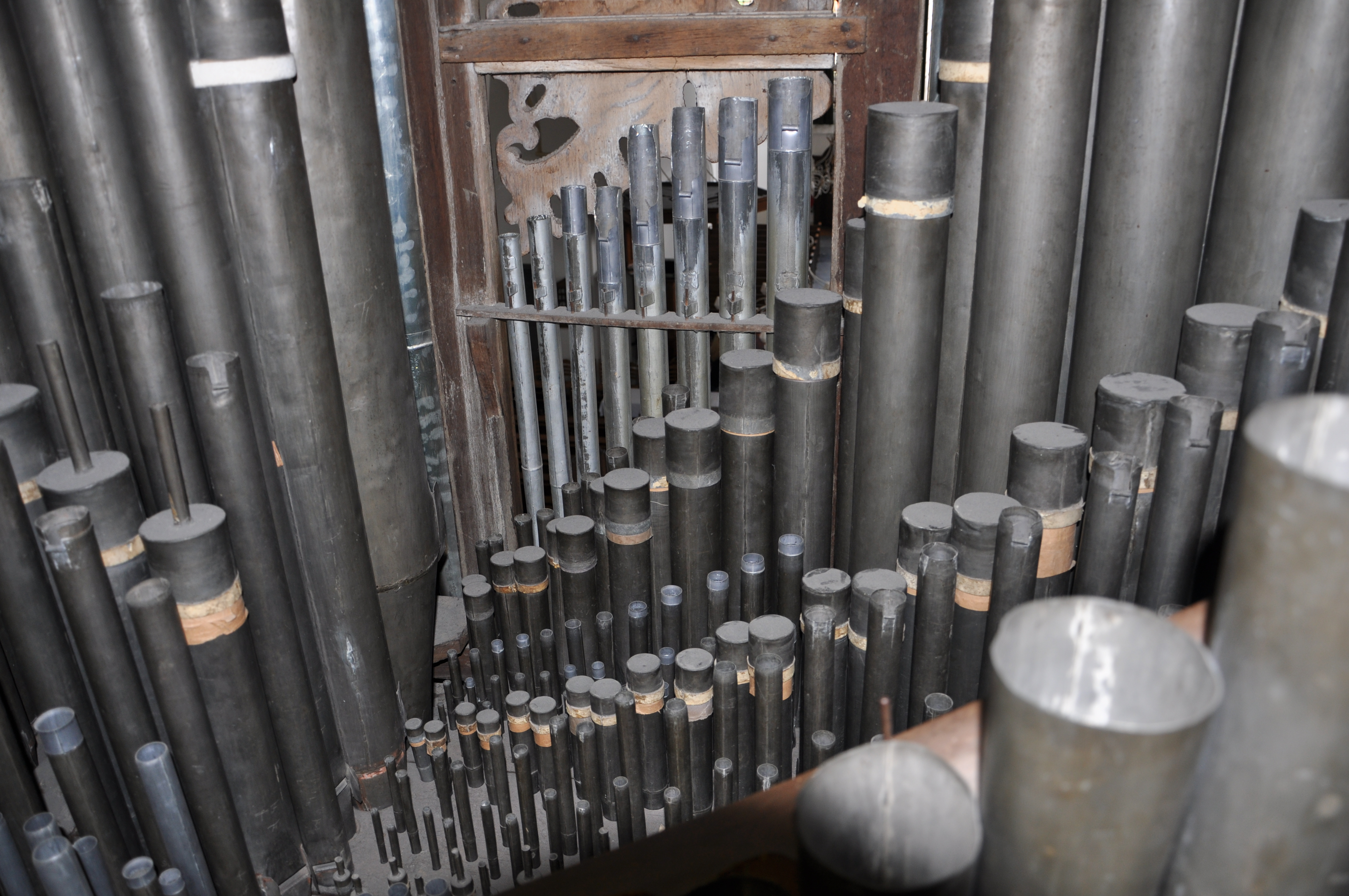 Organ at the Great Church at Nijkerk (the Netherlands)